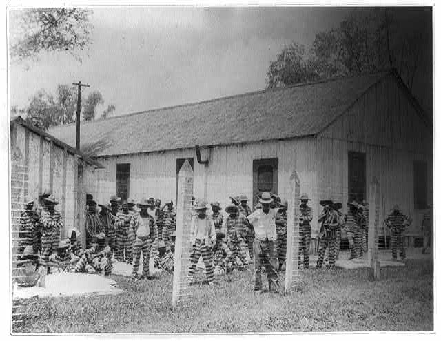 Angola Prison, Louisiana -- Leadbelly in the foreground [Prison compound no. 1, Angola, Louisiana. Leadbelly (Huddie Ledbetter) in the foreground]. Lomax, Alan, 1915-2002, photographer. CREATED/PUBLISHED 1934 July. NOTES Title devised by Library staff based on caption information and inventory lists. Handwritten on back: "Prison compund No 1. Angola, La. Leadbelly in foreground." Forms part of: Lomax collection of photographs depicting folk musicians, primarily in the southern United States and the Bahamas.